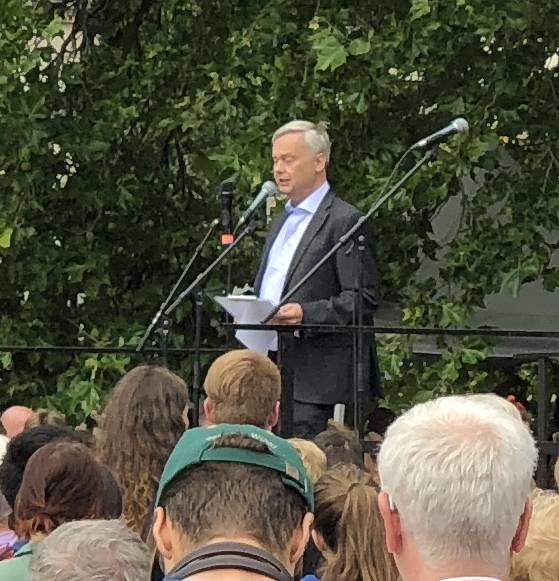 School strike for climate in Berlin 2019-07-19